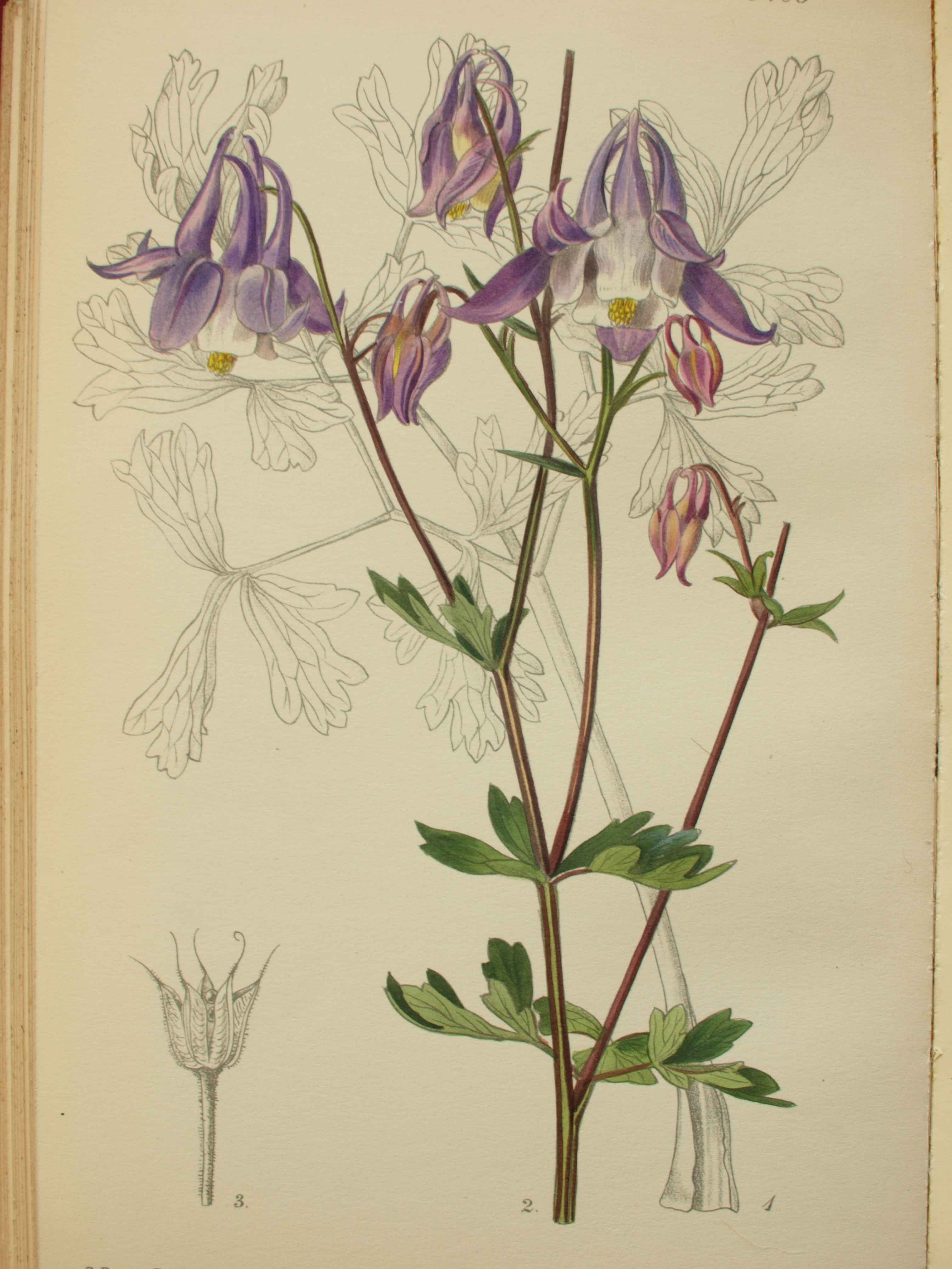 Curtis's Botanical Magazine Tab 9405 Aquilegia grata from Karl Maly's sample Dobrun Bosnia 1909 Note: iconography inaccurately assumes to have depicted Aquilegia grata while Aquilegia nikolicii is correct. Erroneously Turrill was sent seeds by Karl Maly tentatively assuming they belong to Aquilegia grata. In reality he depicted Aquilegia nikolicii Niketic & Cikovac. Further reading: Marjan Niketić, Pavle Cikovac, Vladimir Stevanović 2013: Taxonomic and nomenclature notes on Balkan columbines (Aquilegia L., Ranunculaceae). In: Bulletin of the Natural History Museum Belgrade, 6: 33-42. PDF